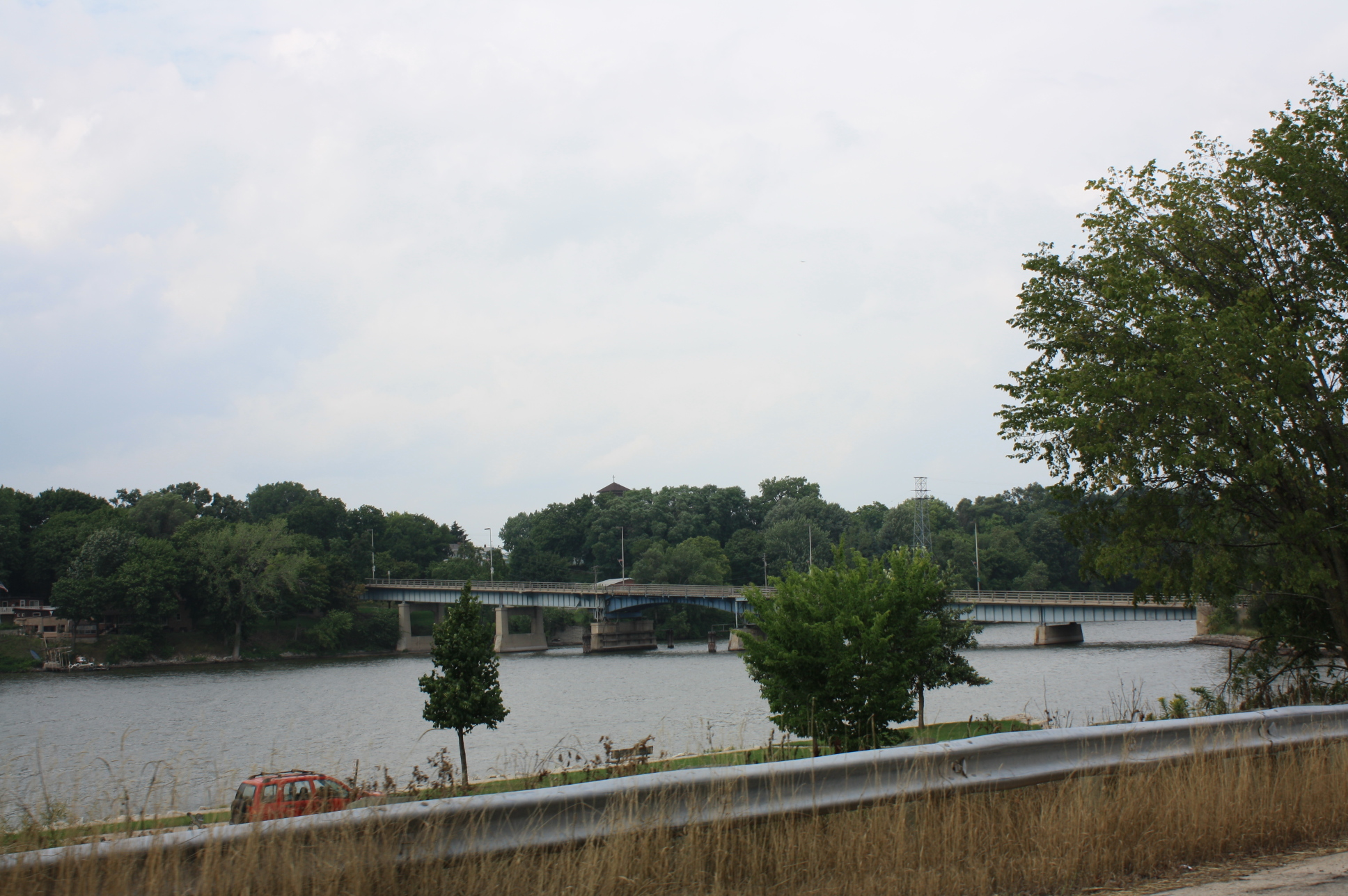 Looking north at the Wisconsin Highway 96 bridge over the Fox River (Wisconsin) in Wrightstown, Wisconsin.